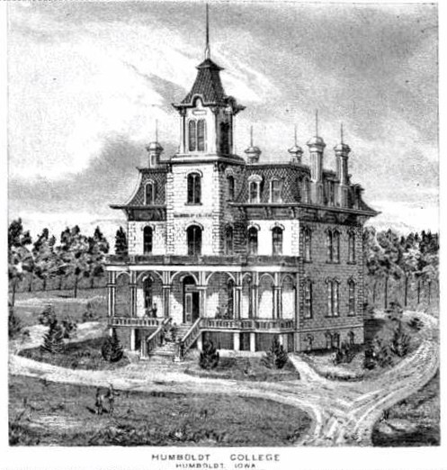 Humboldt College in Humboldt, Iowa as it appeared before 1900.